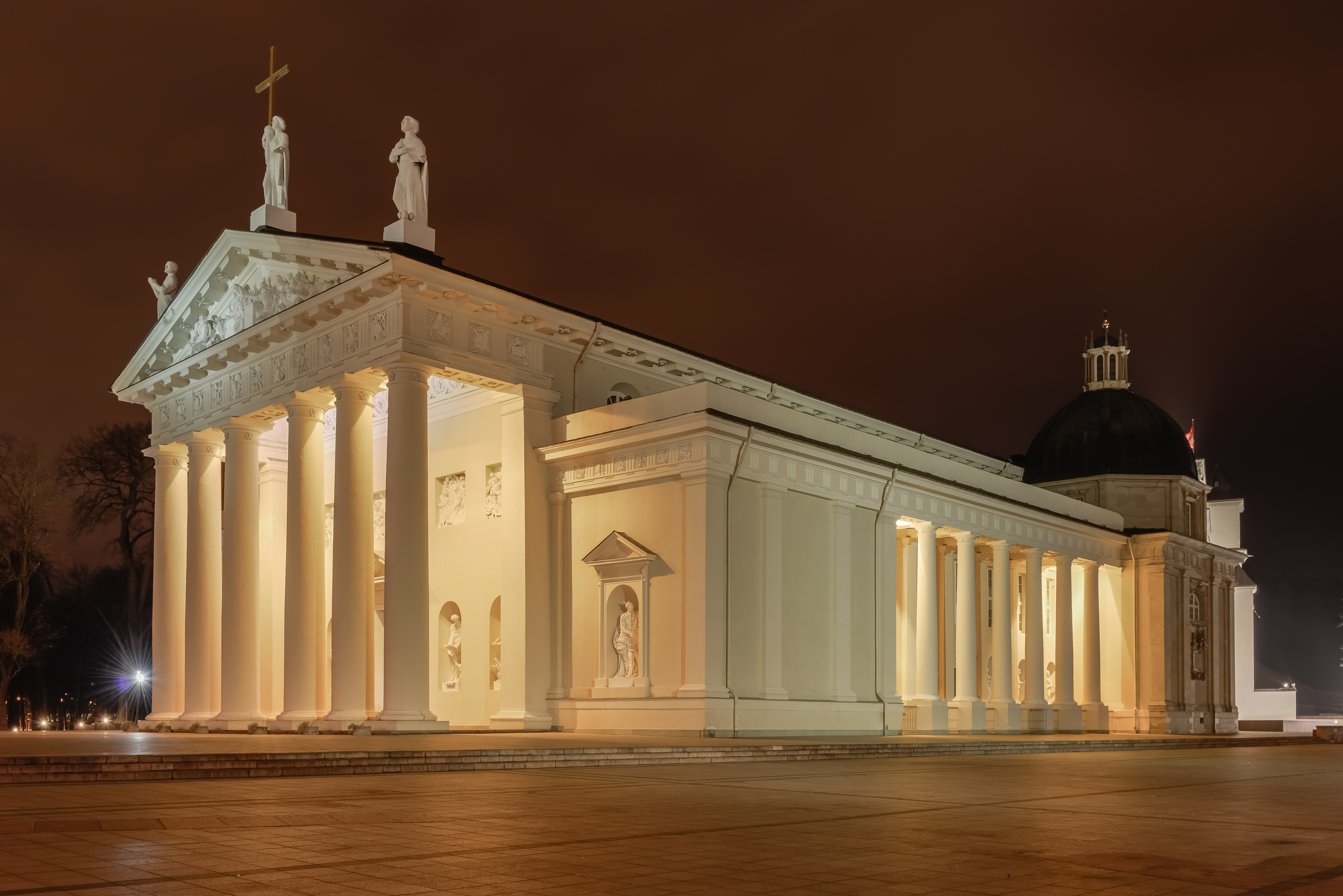 Cathedral of Vilnius at night